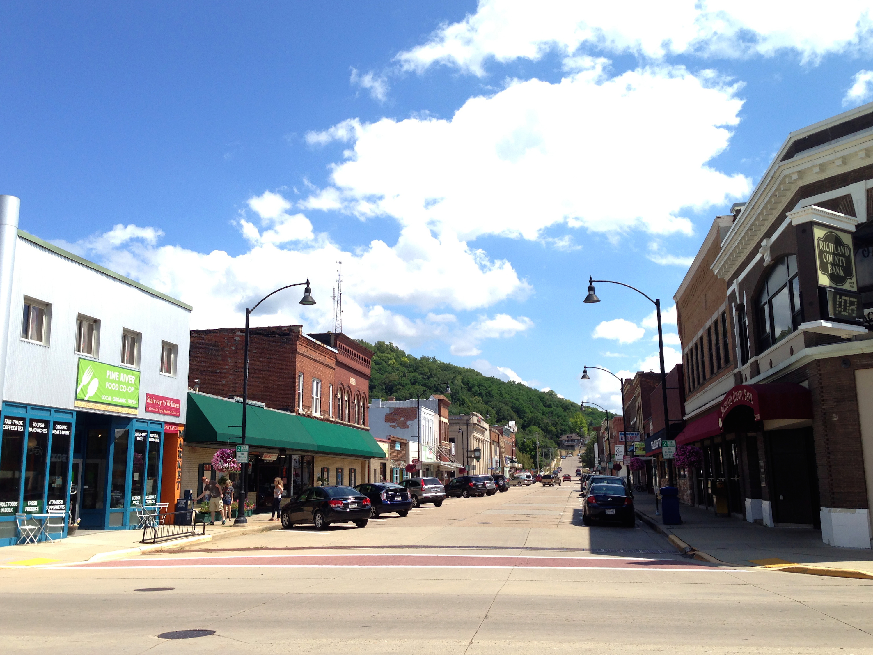 Richland Center, WI, August 2015, Main Street